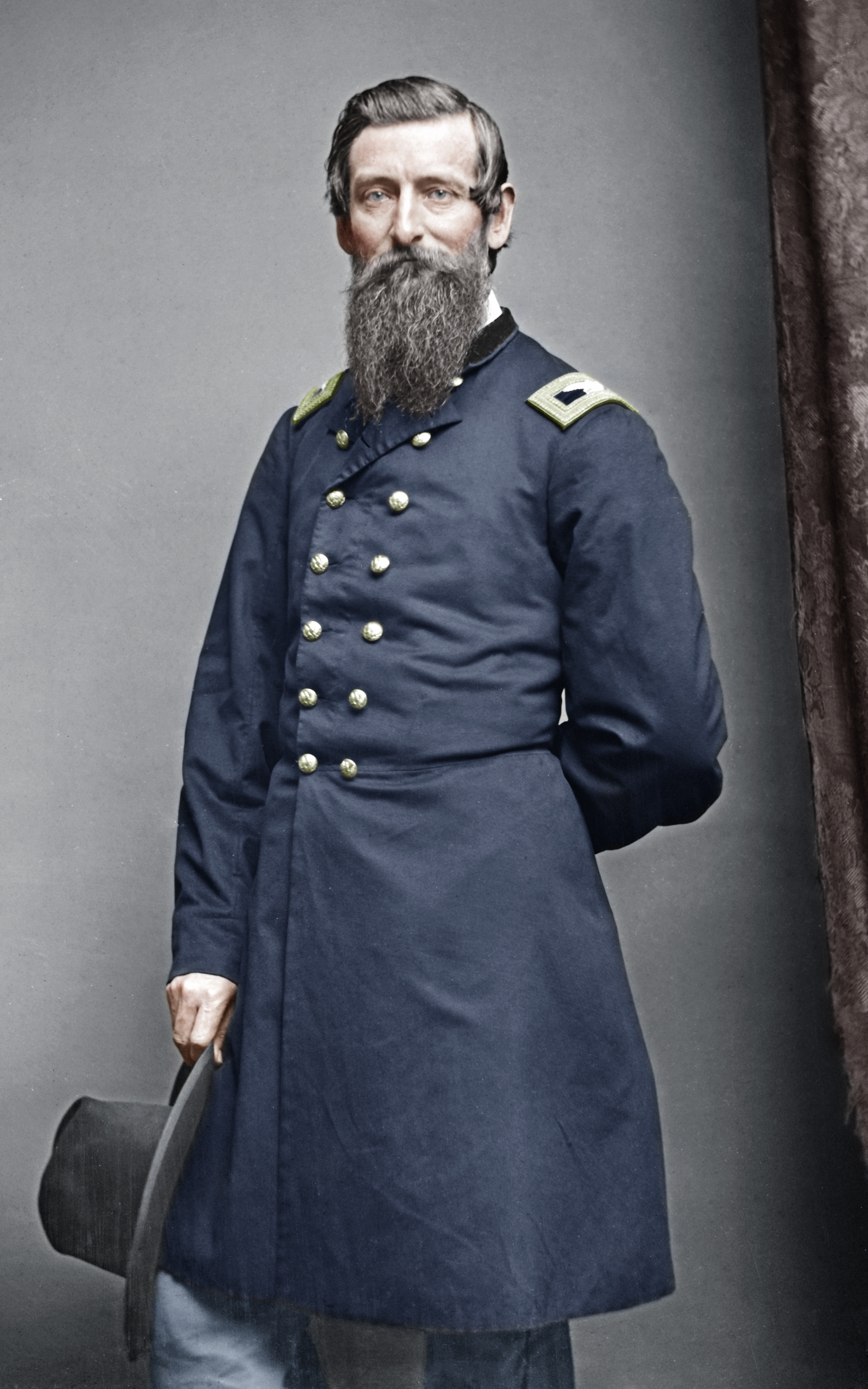 Civil War Union Colonel Jacob Gellert Frick, c. 1863